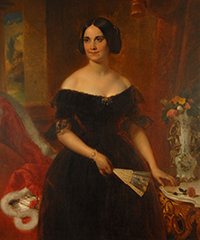 Portrait of Anna Maria Calhoun Clemson